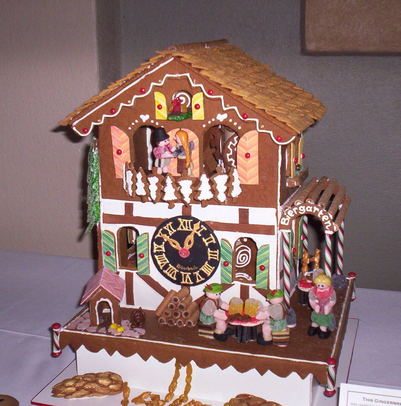 Inside the Old Courthouse was the Gingerbread House competition. The detail on some of these was absolutley amazing!